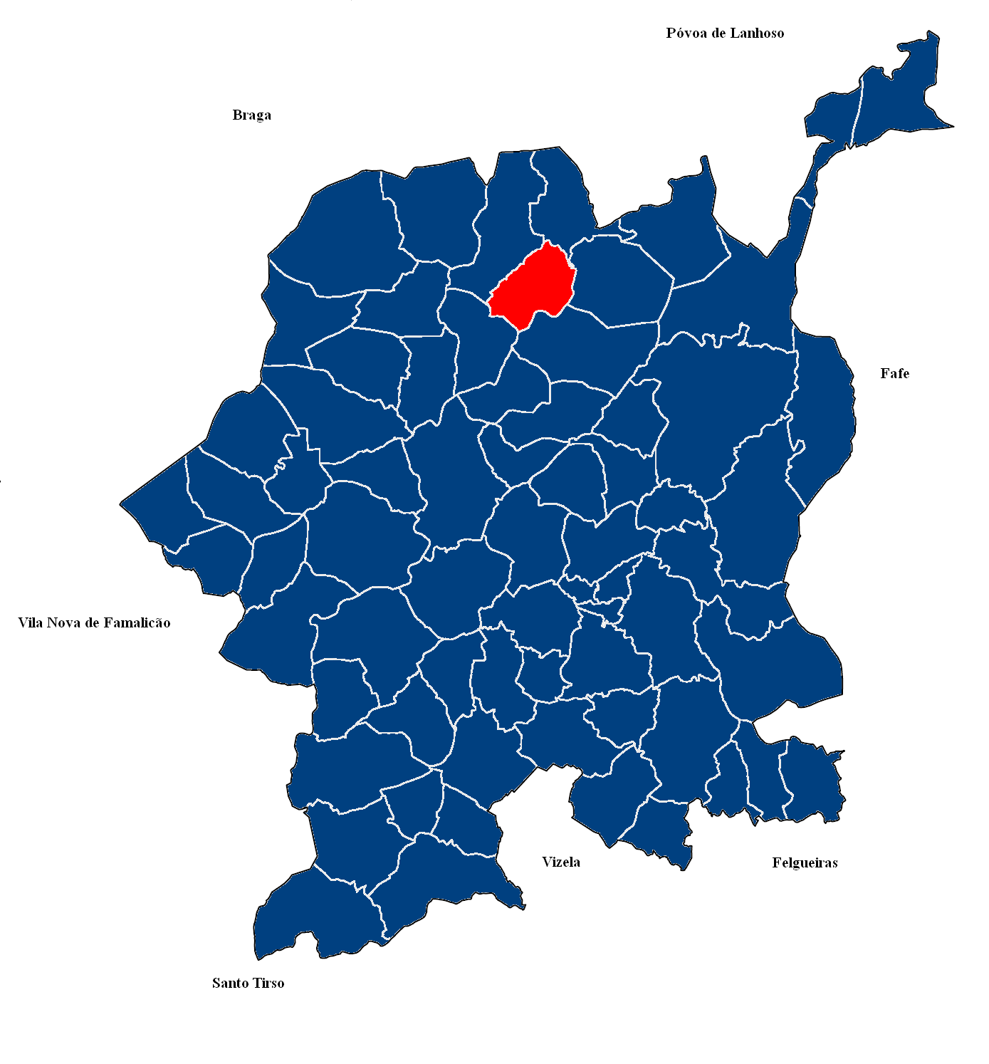 Map of Parish of Santo Estêvão de Briteiros, Guimarães, Portugal.